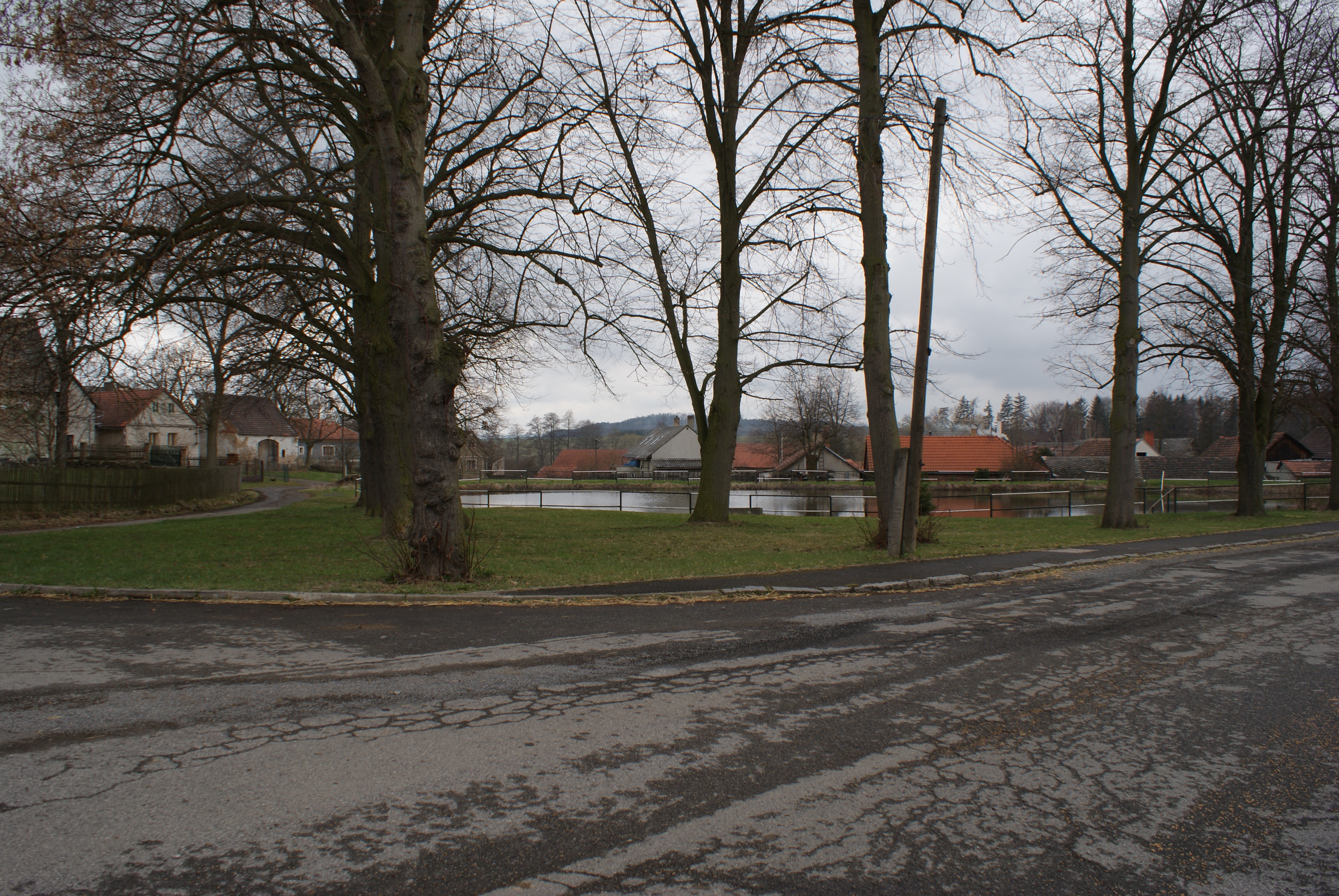 Starosedlský Hrádek, a village in Příbram district, Czech Republic, the village commons.